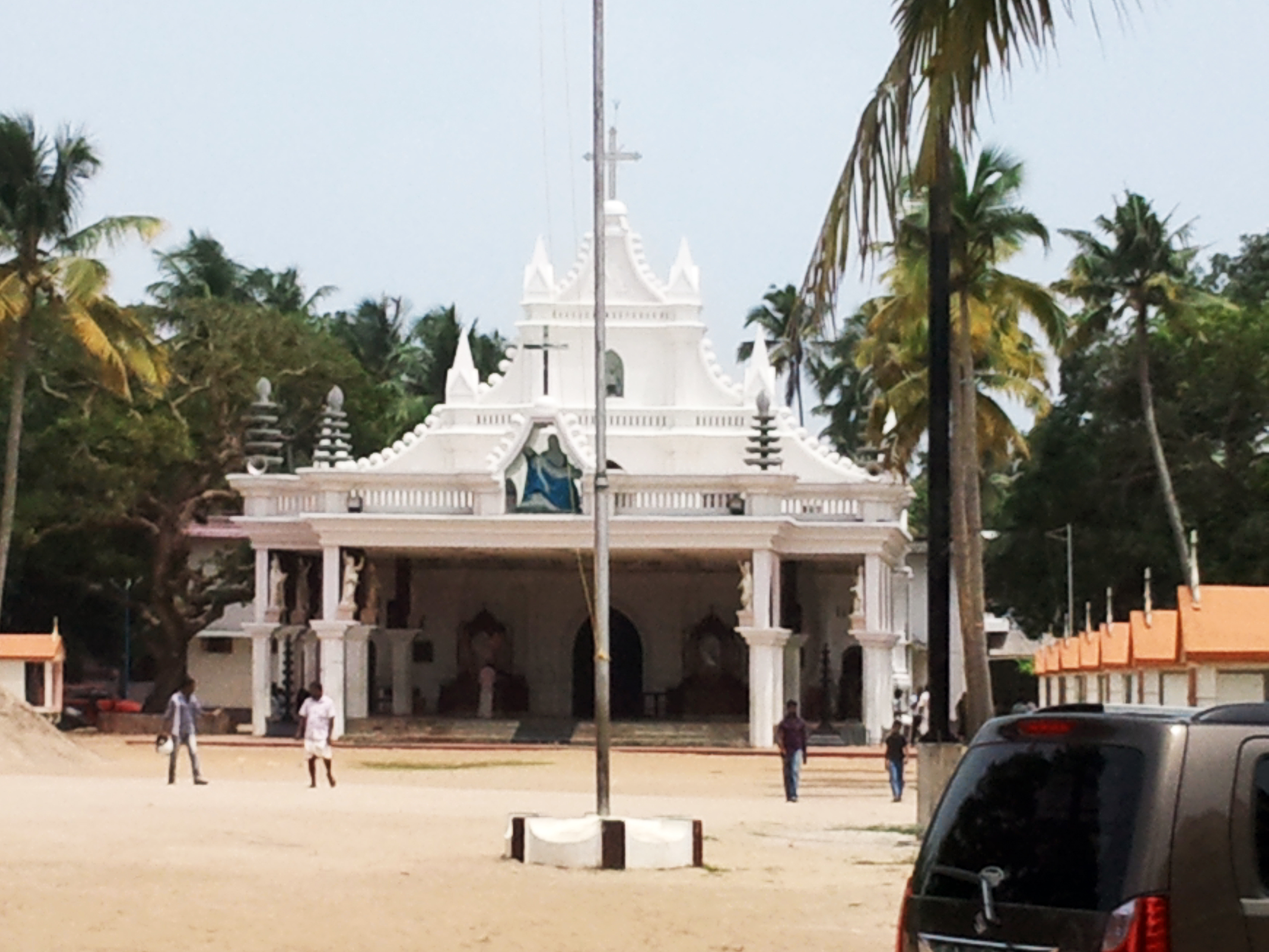 Poonkavu Church, Alappuzha